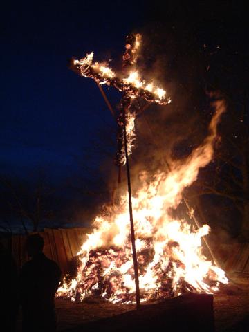 Picture of the traditional "Hüttenbrennen" at the Eifel Mountain Region/Germany. In former times the "Hüttenbrennen" was done every year before spring to symbolically "burn the winter" and to appease the gods for a fruitful summer. Nowadays it is still done once a year to achieve the tradition but there is no more "deeper sense" behind